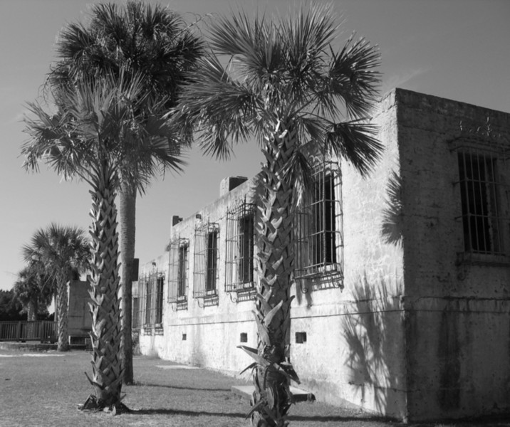 Photographer: Ron Osborne